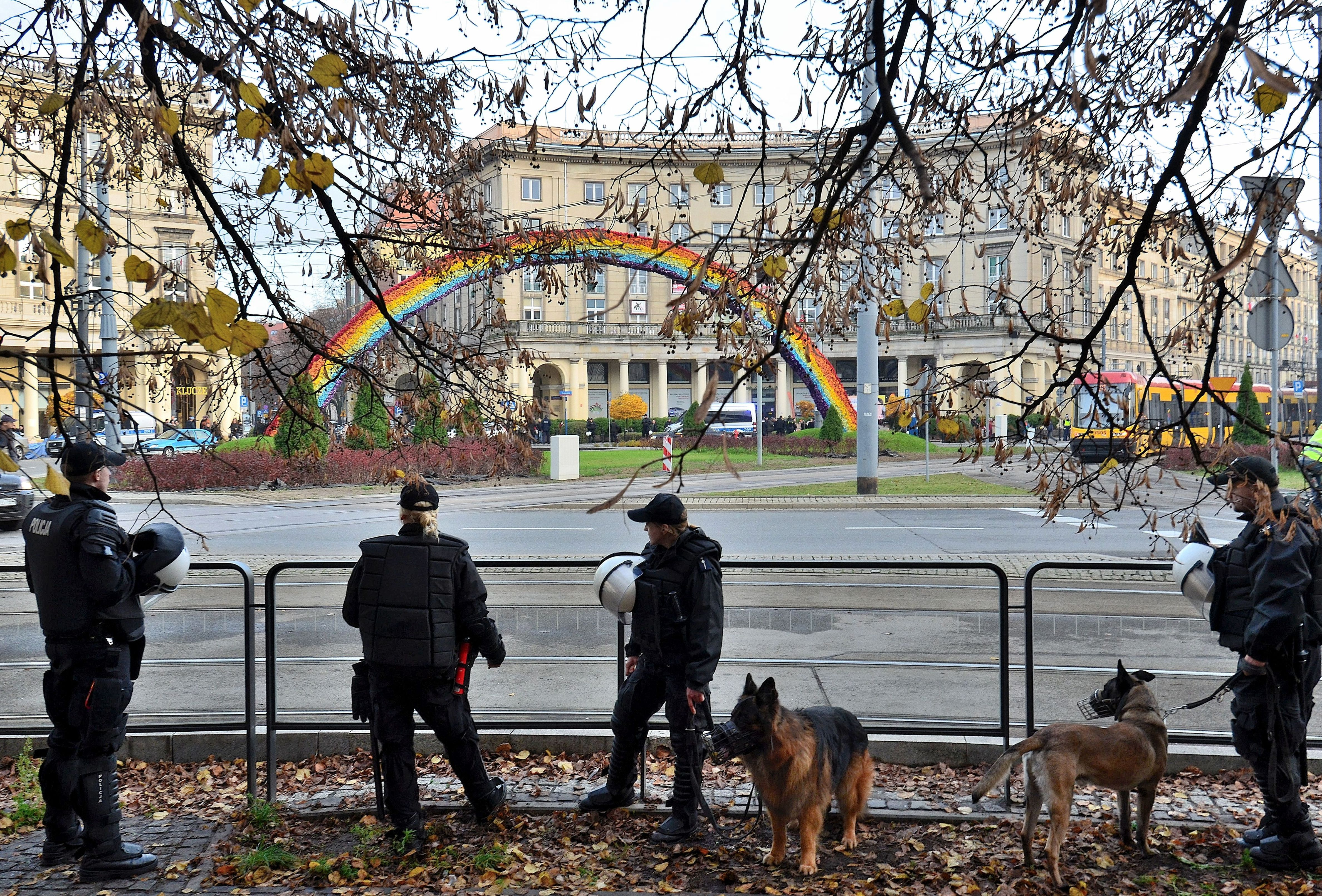 Police officers guarding "The Rainbow" on November 11th 2014